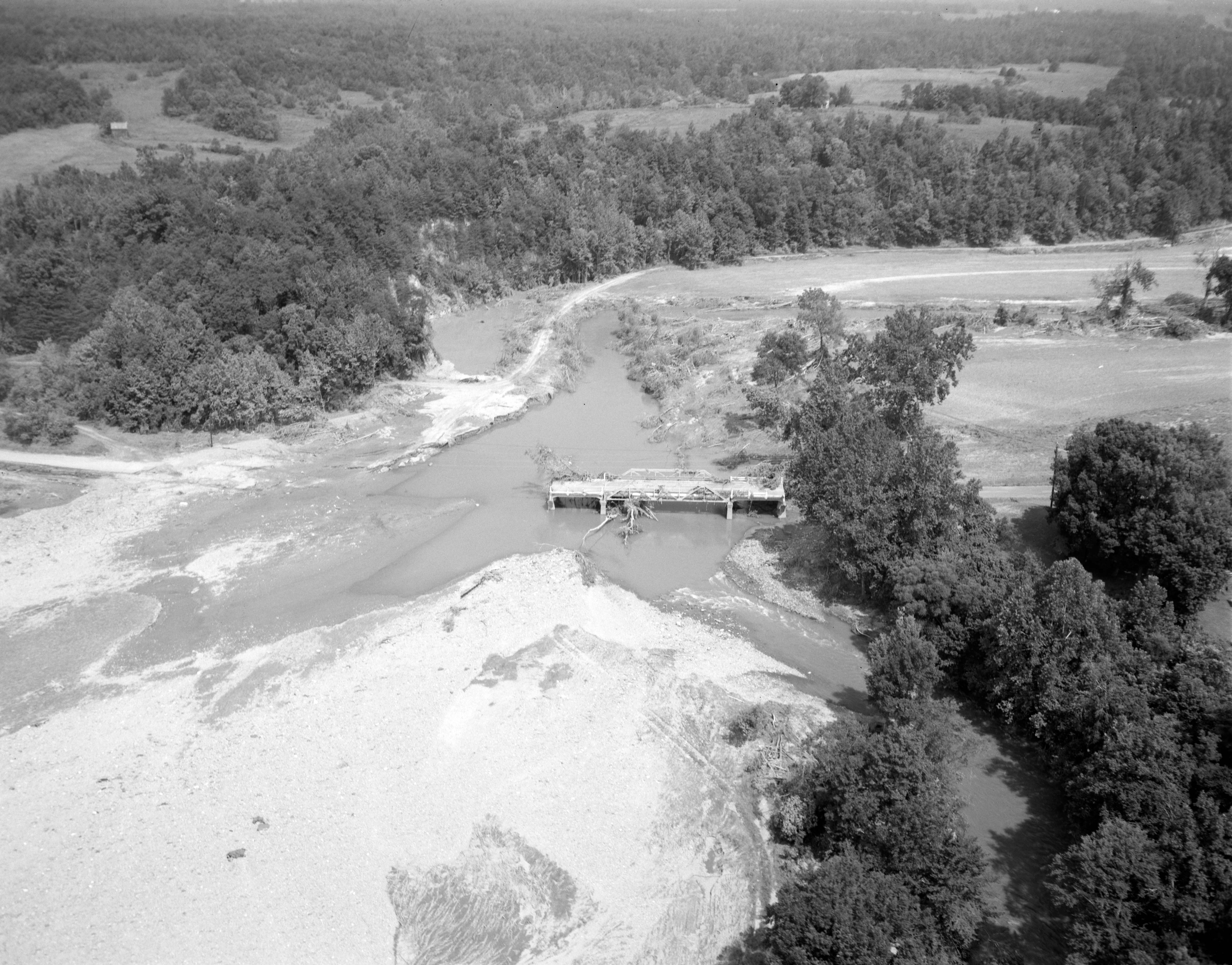 This damaged bridge over the Black Creek is located about one mile west of Colleen in Nelson County. The negative sleeve identifies the location as Rt. 158, but this route was replaced by Rt. 56 between Colleen and the Piney River in recent years. No. 69-2183, Virginia Governor's Negative Collection, Library of Virginia.